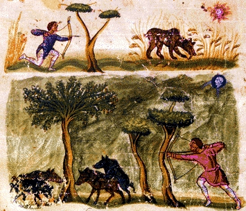 Oppian, Cynegetica. Marcianus Gr. 479 f. 4v: detail of illustration, hunting by day and night